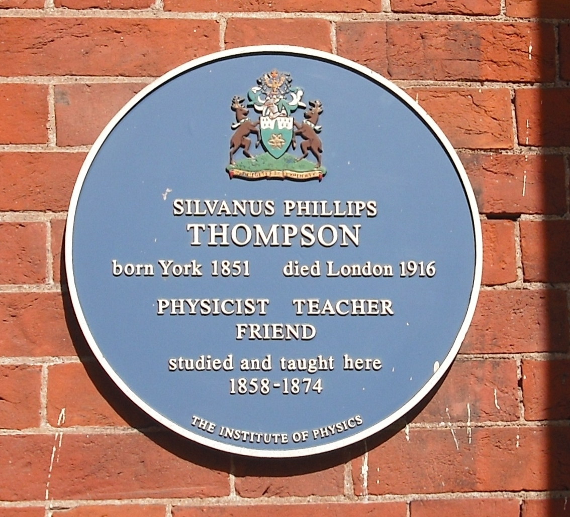 Plaque for Silvanus Phillips Thompson at Bootham School, York, UK